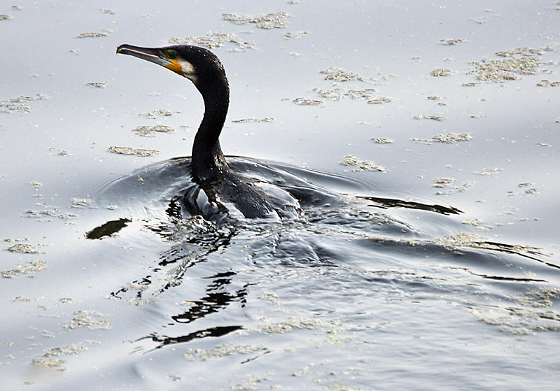 Indian Cormorant Phalacrocorax fuscicollis in Kolkata, West Bengal, India.